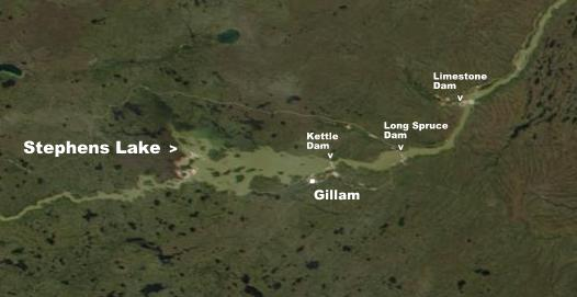 Stephens Lake on the Nelson River in Manitoba, Canada from a portion of a NASA image titled "lakes of the Manitoba Province, Canada". (captions have been added by Kayoty)